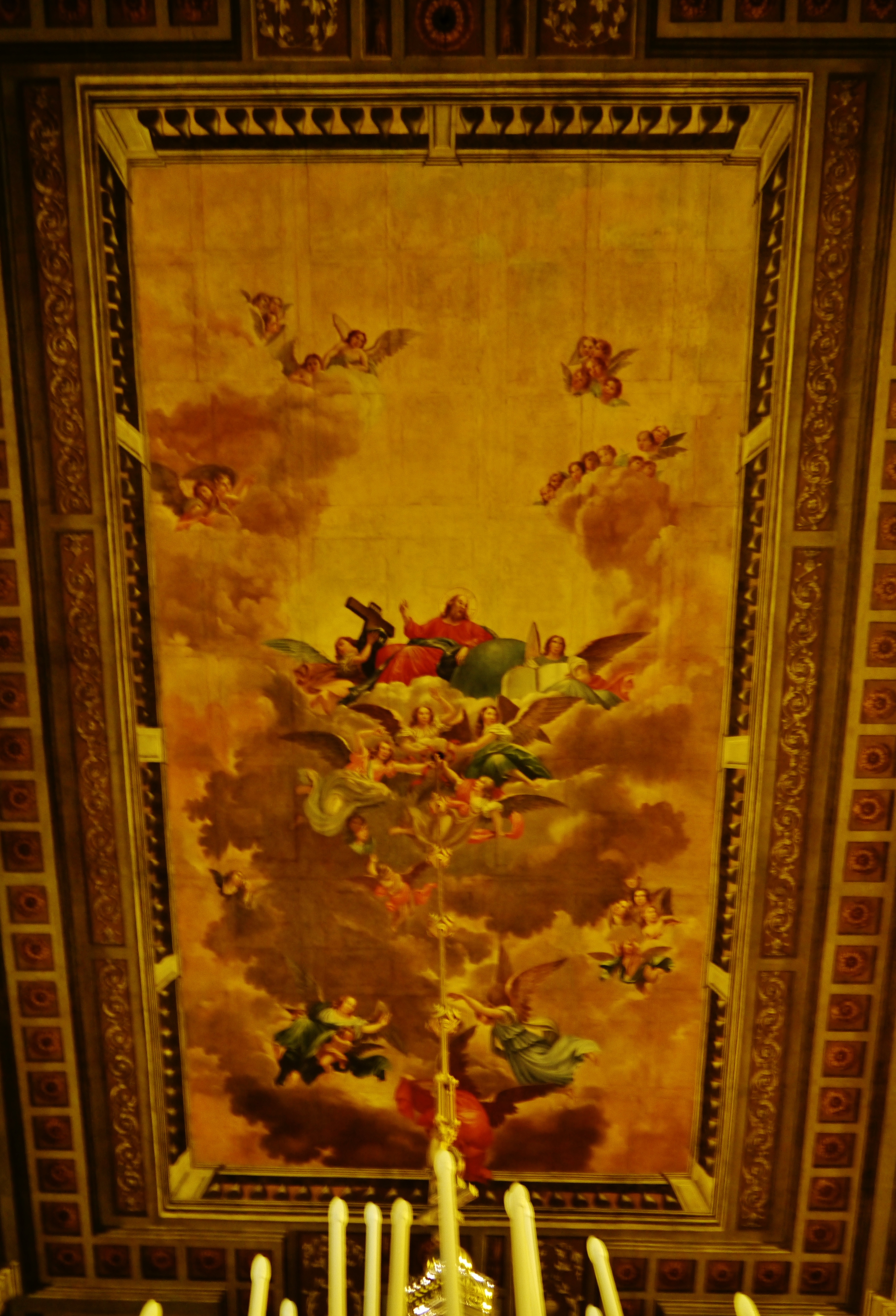 Ceiling of the Greek Orthodox Church San Nicolò dei Greci, Trieste, Friuli-Venezia Giulia, Italy